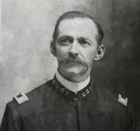 George Austin McHenry (1858-1931) when he served in the United States Volunteers, circa 1900.